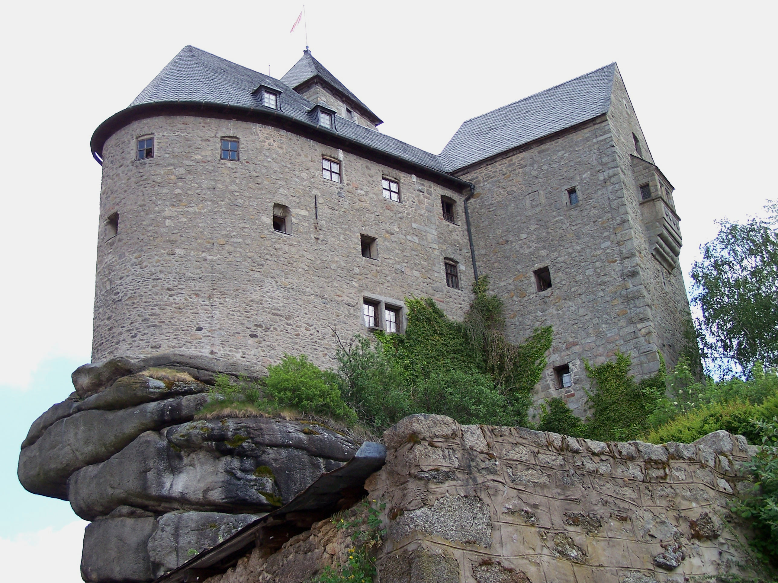 Falkenberg Castle in Falkenberg (Upper Palatinate) in May 2007